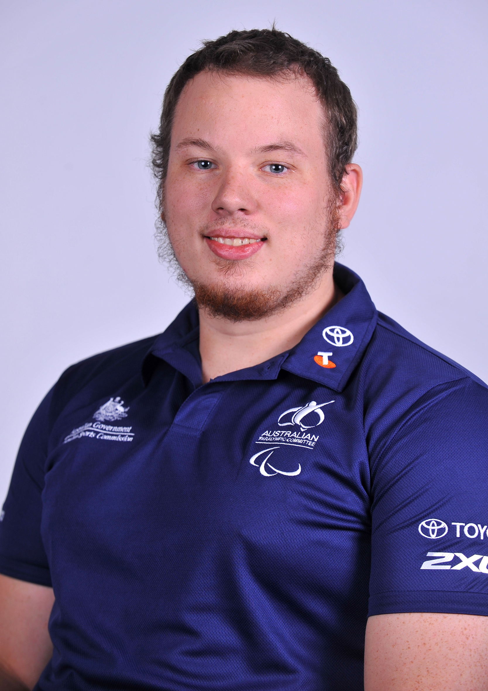 Portrait of Australian wheelchair basketballer Shaun Norris, 2012 Australian Paralympic (shadow) Team athlete